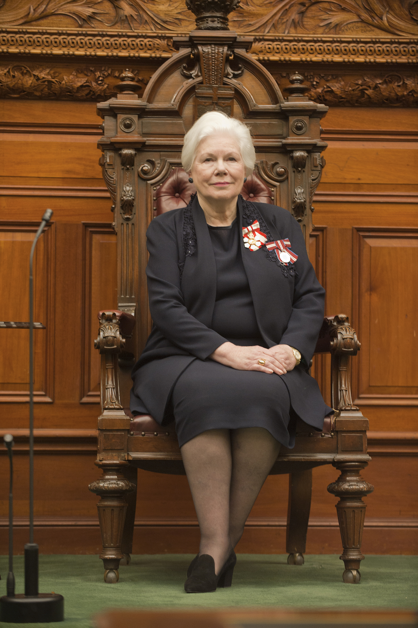 Elizabeth Dowdeswell, Lieutenant Governor of Ontario, seated on the Throne during her installation ceremony, 23 September 2014.